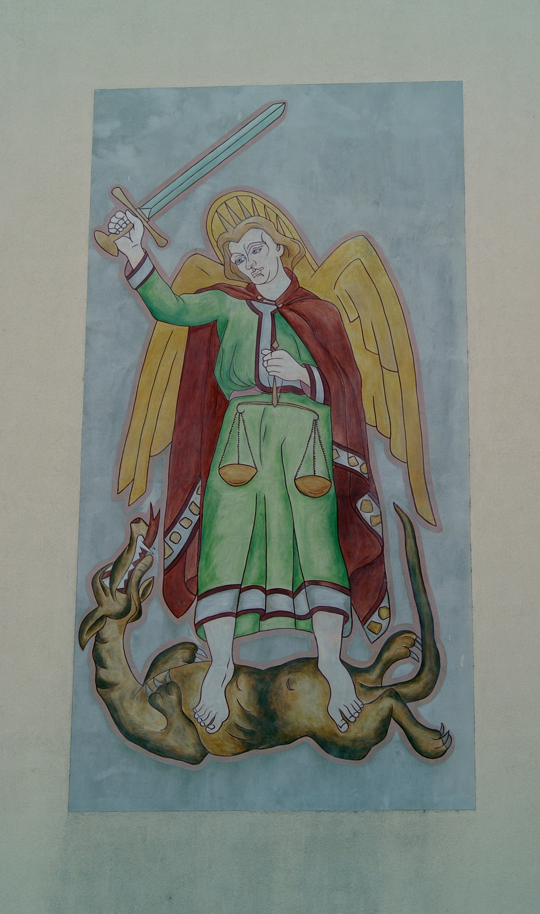 Bild von Otto Baumann, Regensburg an der Lessingstraße 20 aus dem Jahr 1950; rekonstruiert 2003